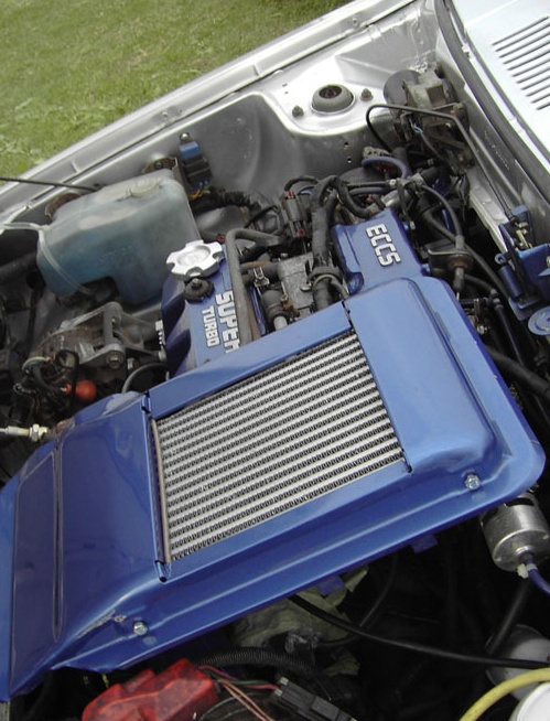 March ST Engine Bay - MA09ERT